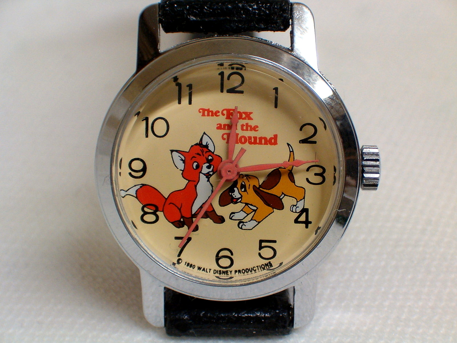 The watch measures 26mm x 32mm. The black vinyl band is original.